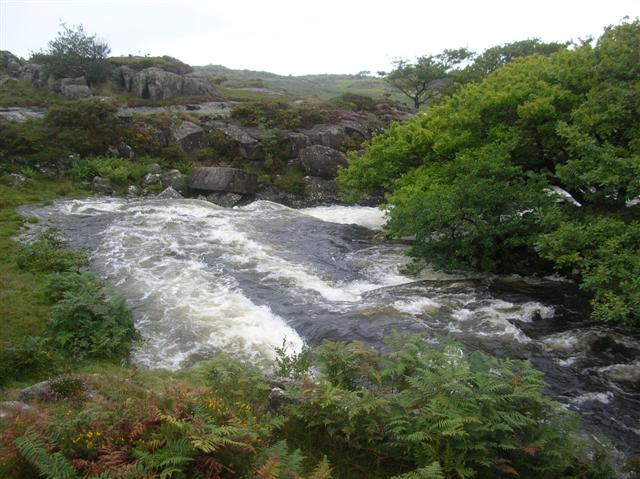 Pont Cwmnantcol. This is the river Cwmnantcol rather swollen, taken from the road bridge over it. A little downstream (to the right) there is a small reservoir in the rivers course.